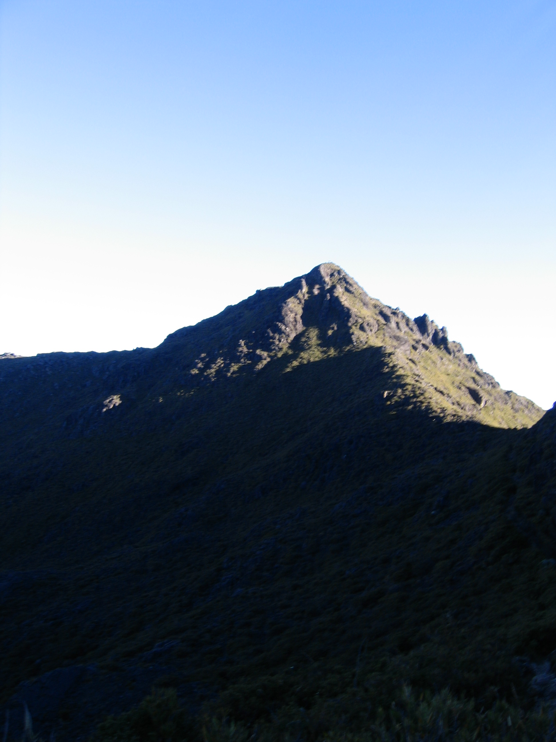 Cerro Chirripó early morning.